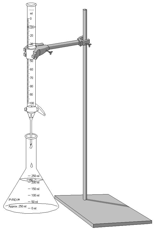 The illustration of titration apparatus used in laboratory. Unfortunately, the 3D schematic of this illustration doesn't seem too realistic.